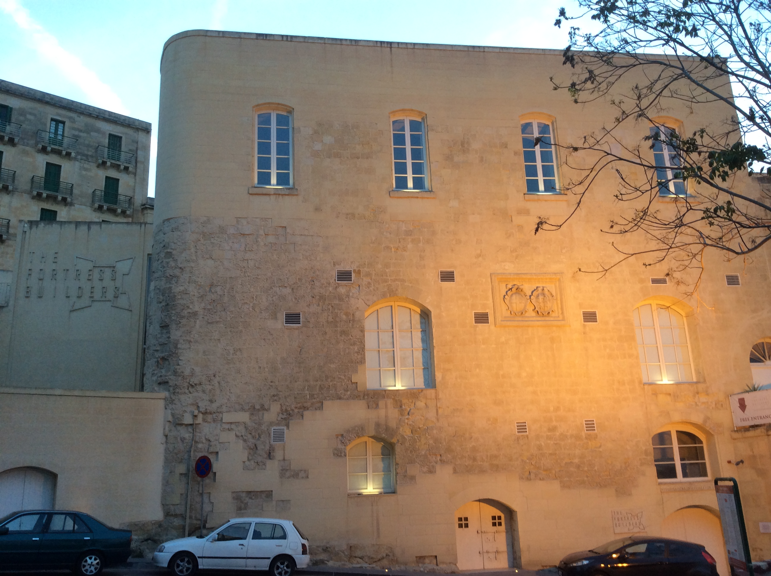 Fortification Interpretation Centre